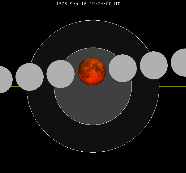 September 1978 lunar eclipse chart of moon's path through the earth's shadow. thumb